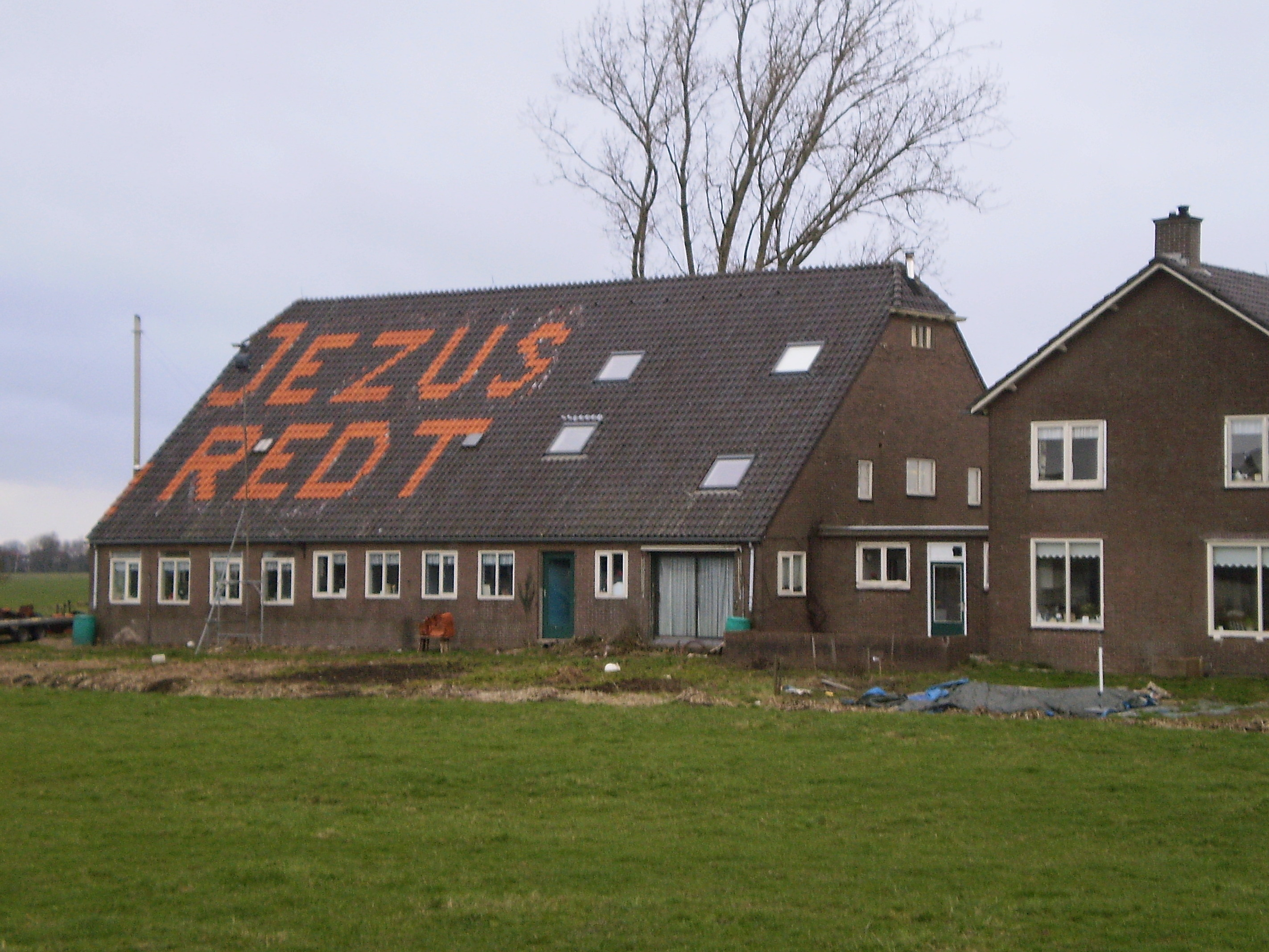 "Jezus redt" (Jesus saves), displayed with orange tiles on the roof of Van Ooijen family's farm, Giessenburg, the Netherlands. Formerly, the text was larger and in bright paint. The farmer agreed with a more moderate design after dealing wit the local authorities.